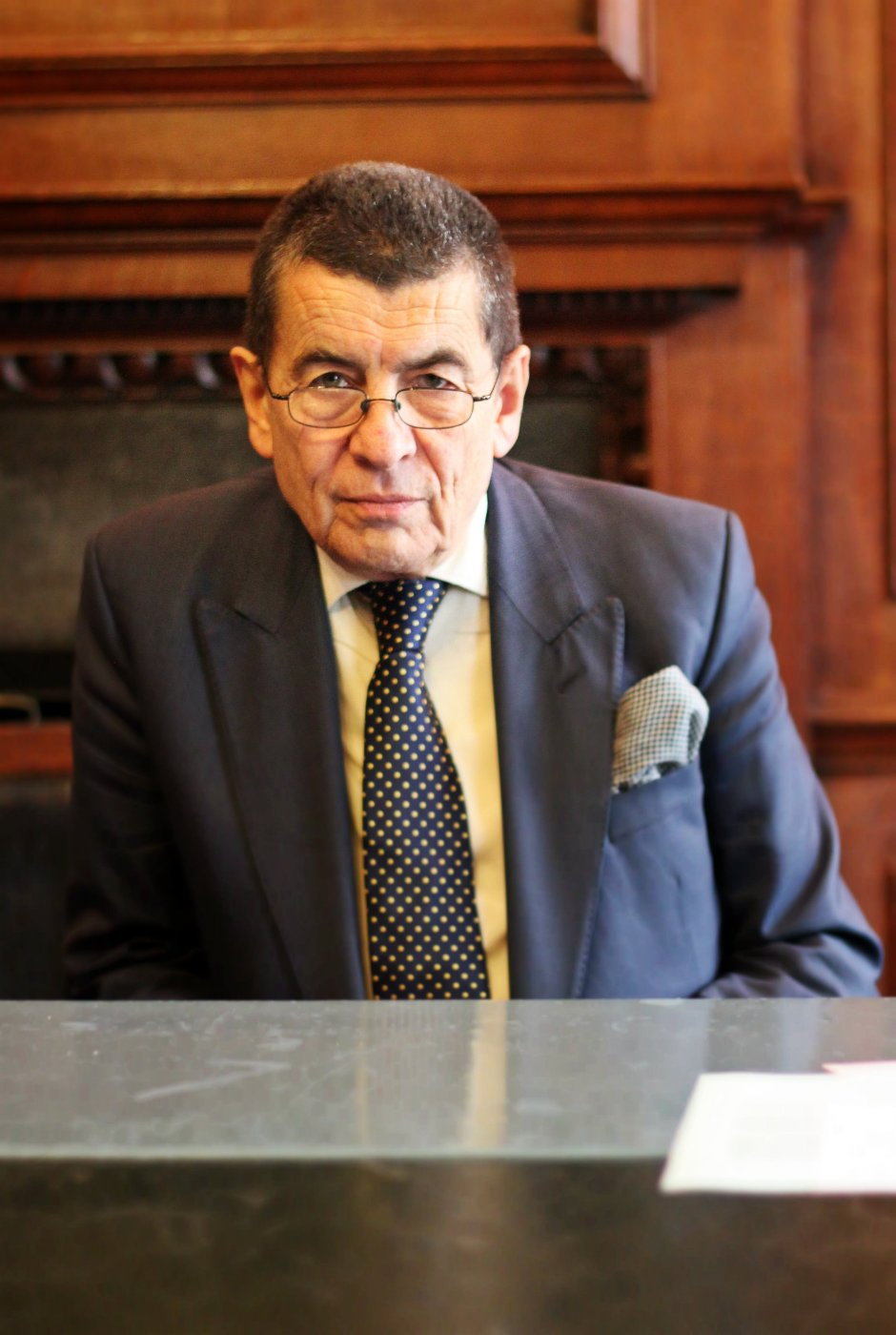 Sir Geoffrey Nice QC, Gresham Professor of Law